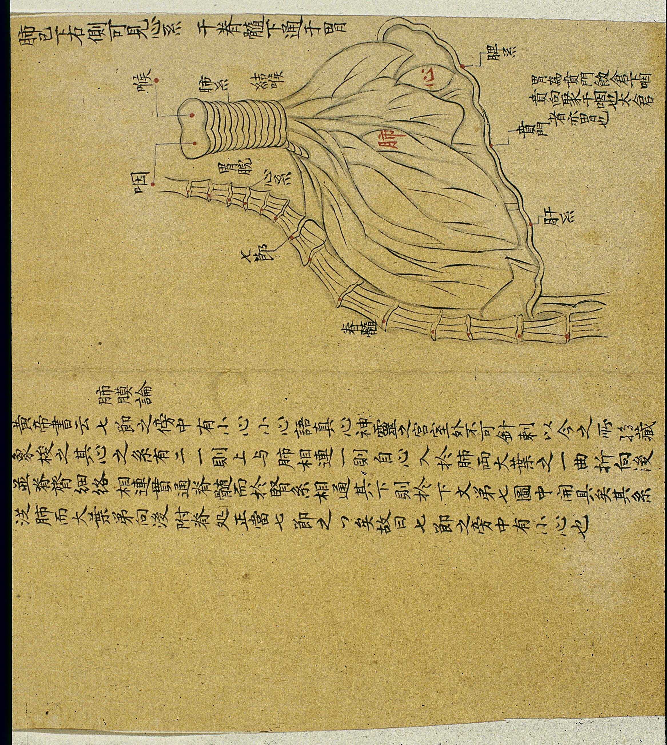 Ink drawing from a MS of the Qing period (1644-1911). The artist sets out to give visual expression to the doctrine, fromHuangdi neijing (Inner Classic of the Yellow Emperor), that 'there are two heart nexuses (xinxi)'.Lingmen chuanshou tongren zhixue(The Lofty Portal Teaching Manual of Acupoints on the Bronze Figurine) states: There are two heart nexuses: one ascends to connect with the lungs; the other passes from the heart into one of the two large lobes of the lungs, curls round to the back where it links with the fine network of the spine, passes through the spinal marrow (jisui, spinal cord), and connects with the kidney nexus (shenxi). This is one of the ancient doctrines of the heart nexus. Wellcome Images Keywords: Medicine, Chinese Traditional; Qing period (1644-1911)